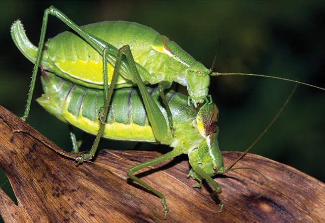 Isophya dochia copula.